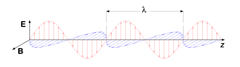 Electromagnetic wave. Electric component (red) in plane of drawing; magnetic component (blue) in orthogonal plane. Wave propagates to the right. The wavelength is λ.